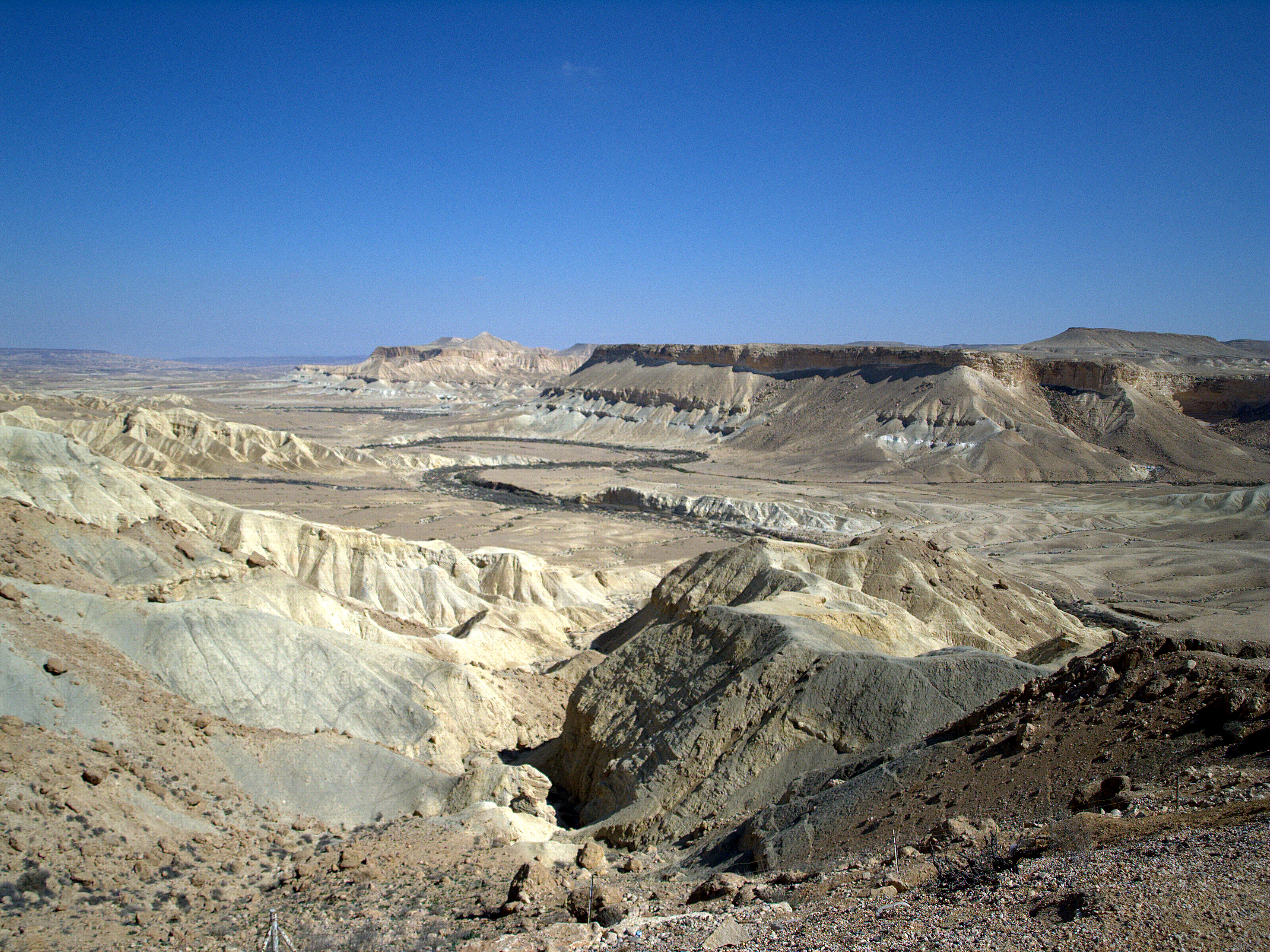 The Zin Valley in the Negev Desert of Israel, as seen from the grave of David Ben-Gurion at Midreshet Ben-Gurion.